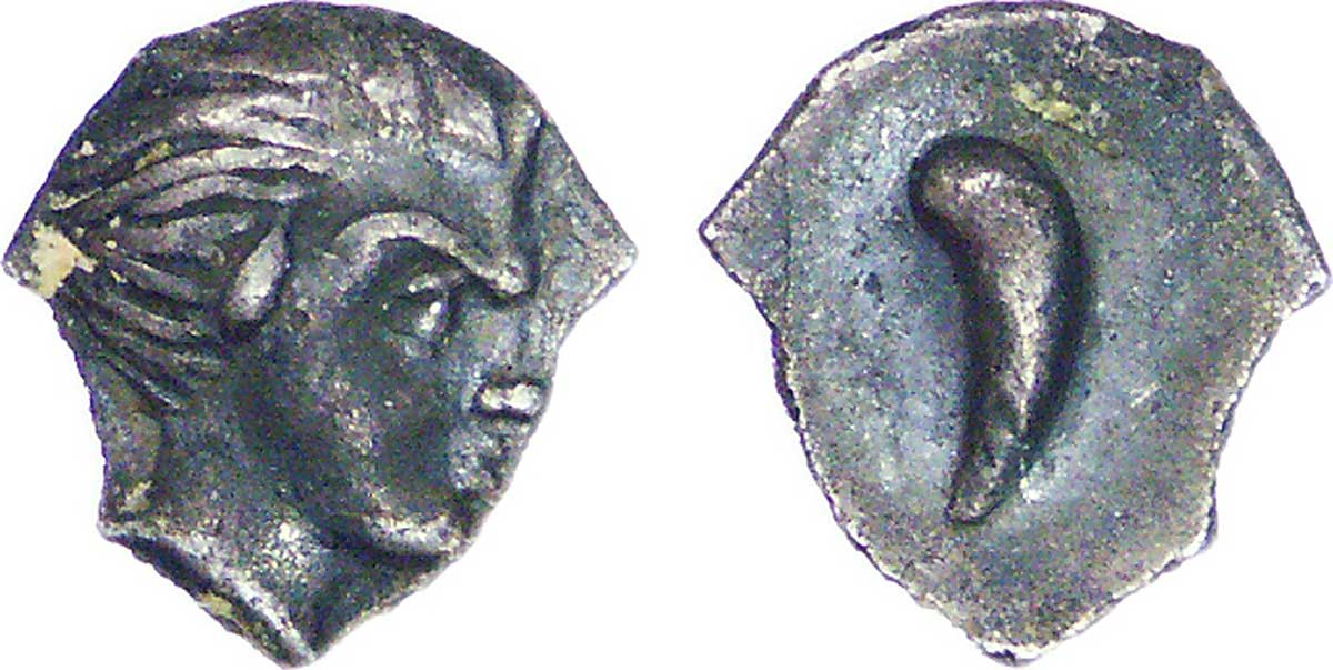 Hémiobole à la tête de satyre et à la corne . Date : après 49 avant J.-C